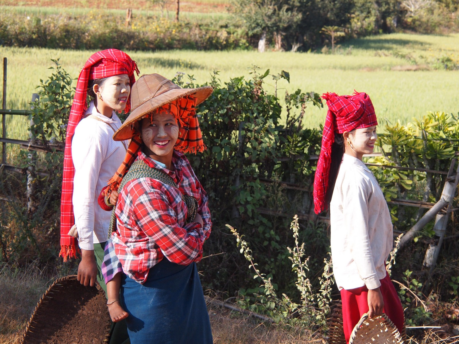 Pa-O women on the road